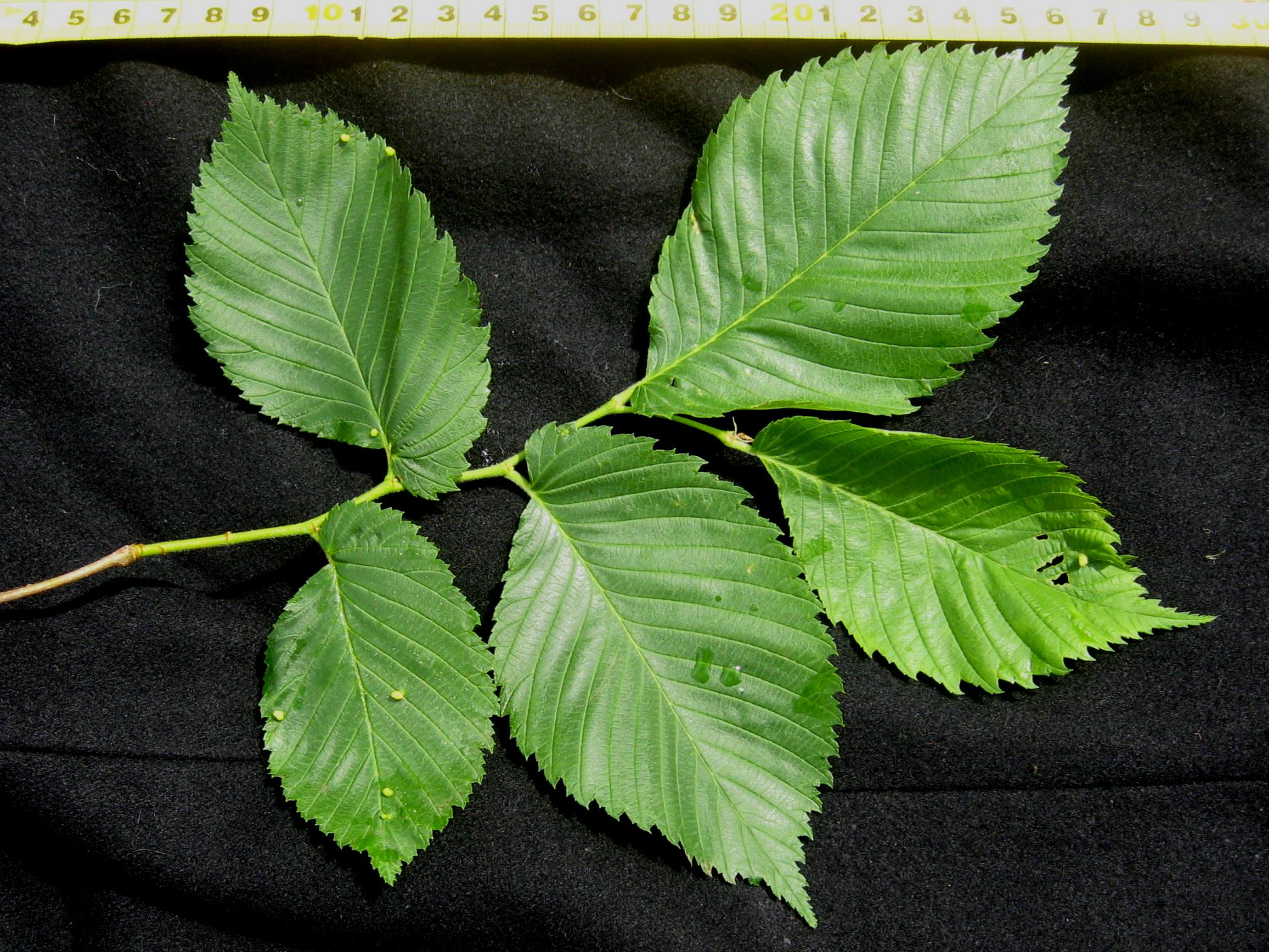 Photo of the foliage of Ulmus laevis, Hexagon Wood, Larkhill, UK